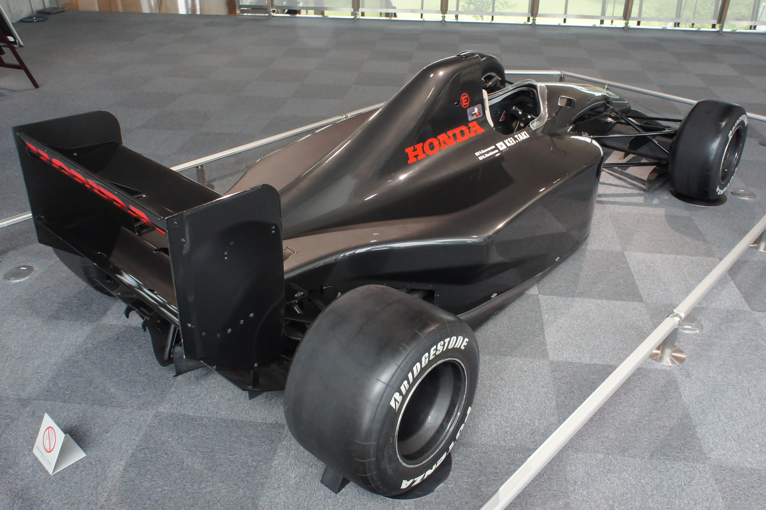 1992 Honda RC-F1 1.5X